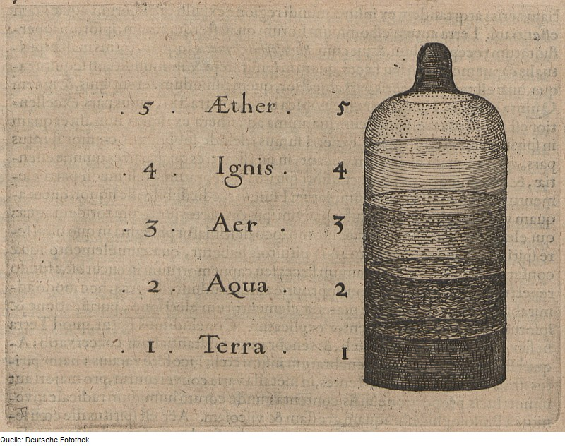 Original image description from the Deutsche Fotothek Theosophie & Philosophie & Judentum & Kabbala